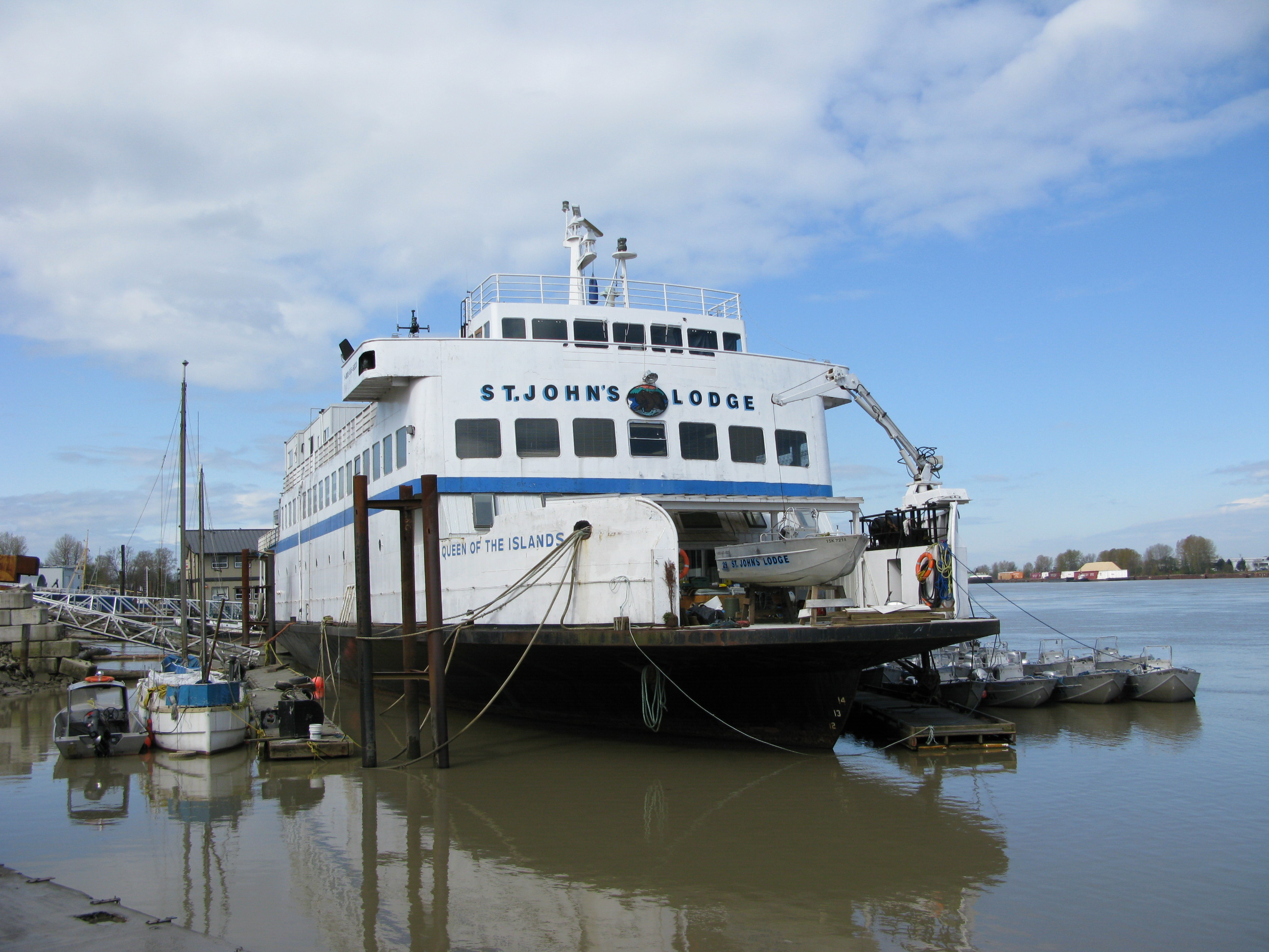 Former BC Ferries MV Queen of the Islands on the Fraser River in Delta, May 2008.